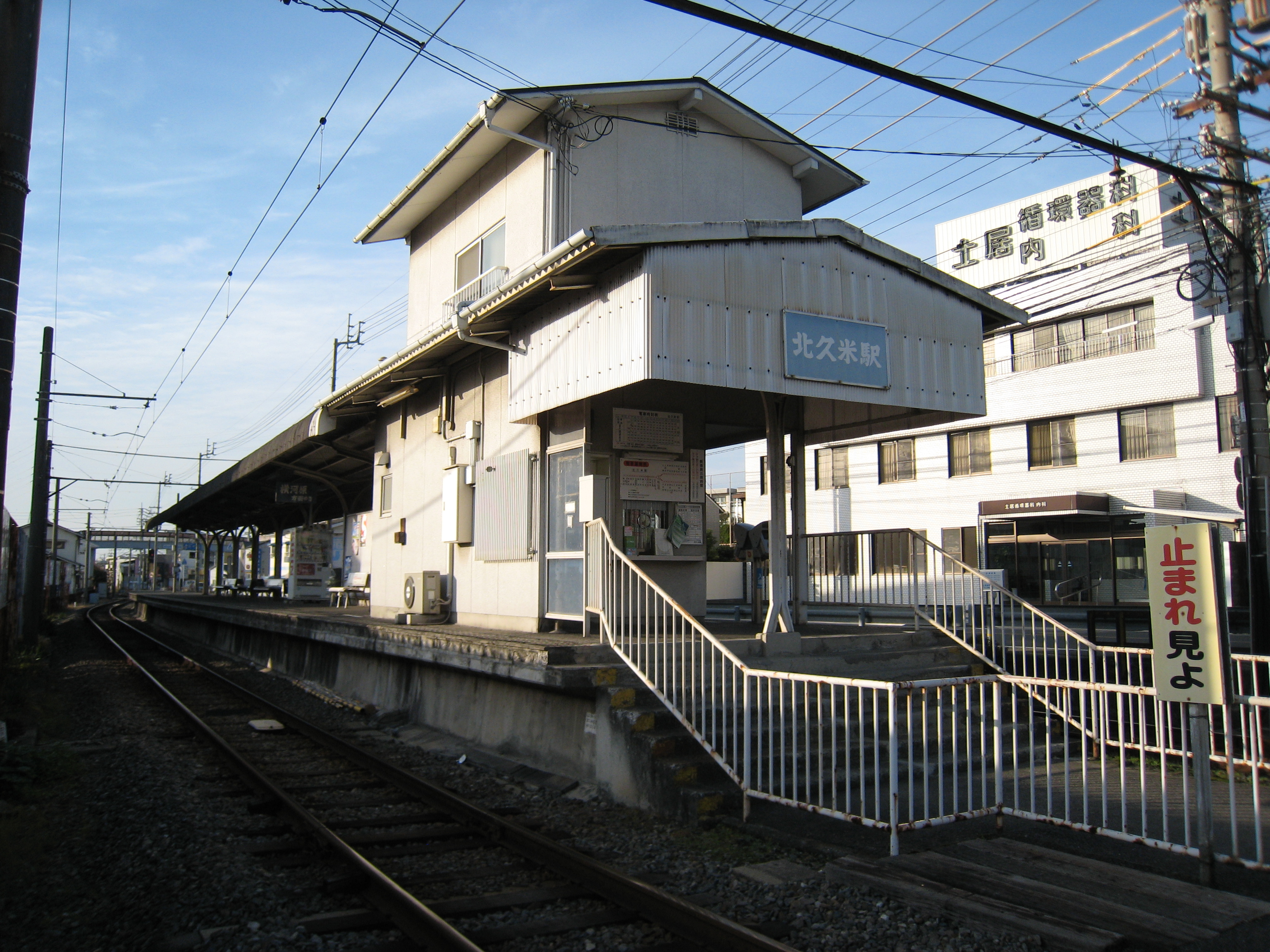 Iyo Railway [Sta.Kitakume]